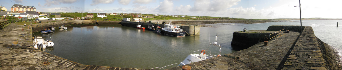 Photo stitch of Liscannor Harbour